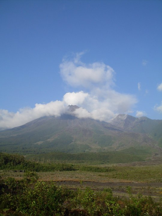 reventado volcano, Equator